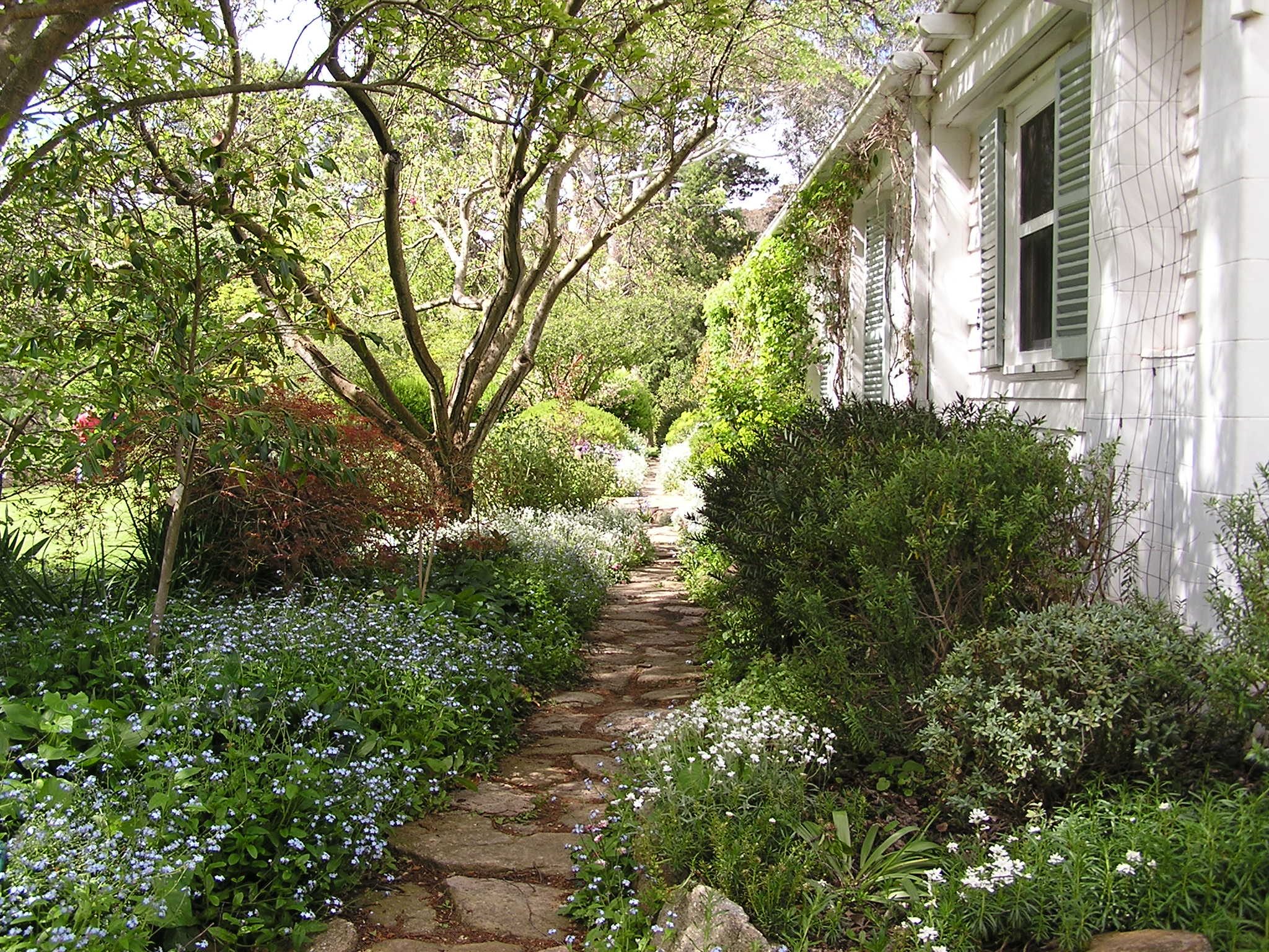 The garden of Markdale at Binda near Crookwell, New South Wales, Australia. The garden was designed by Edna Walling in 1947. It surrounds a homestead built in 1921 and restored by the architect Professor Leslie Wilkinson.